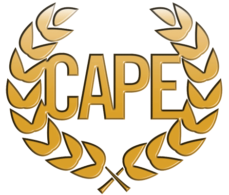 This is the Center for the Army Profession and Ethic's primary logo.